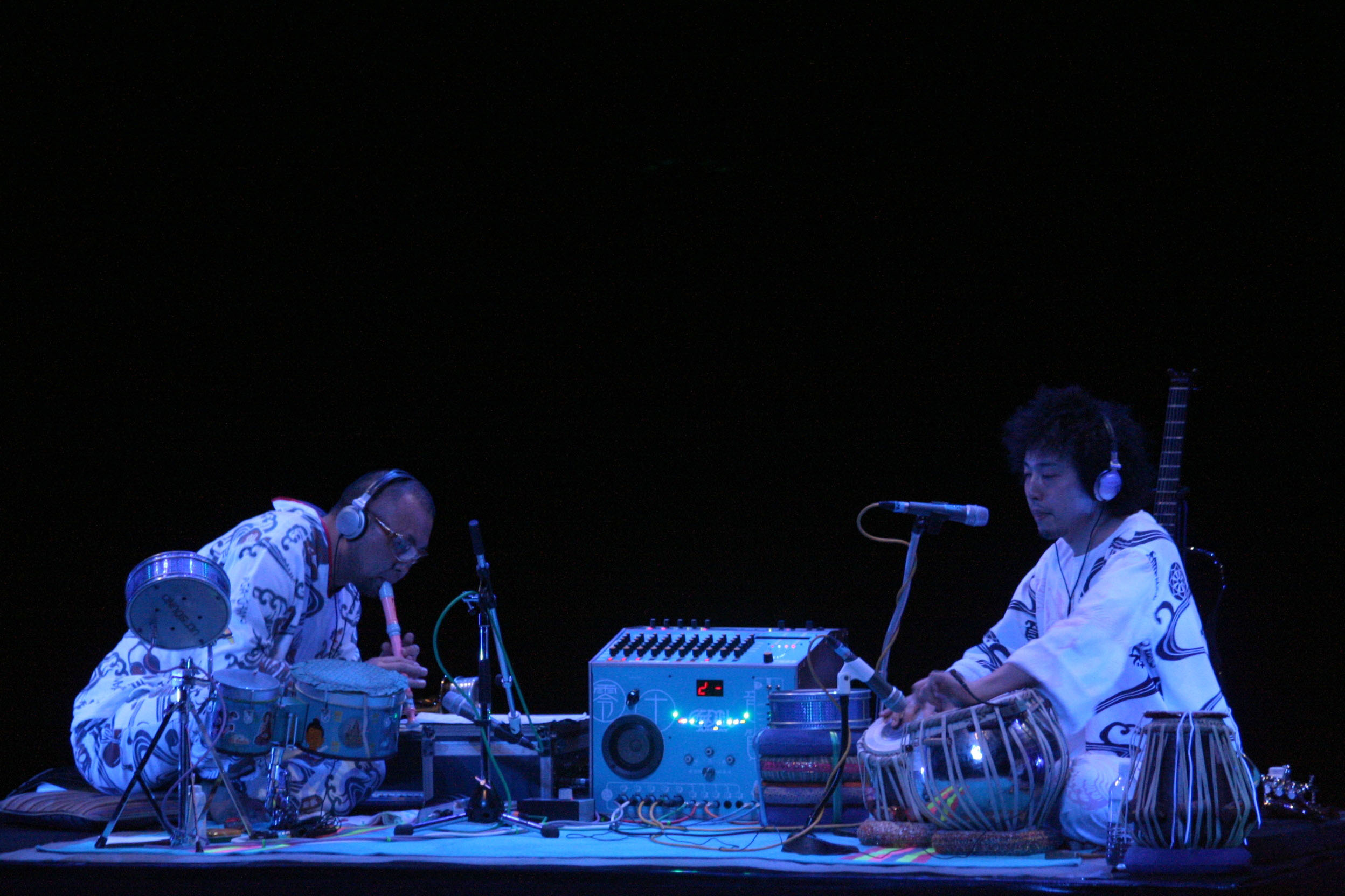 Asa-Chang & Junray, a Japanese Musical group.